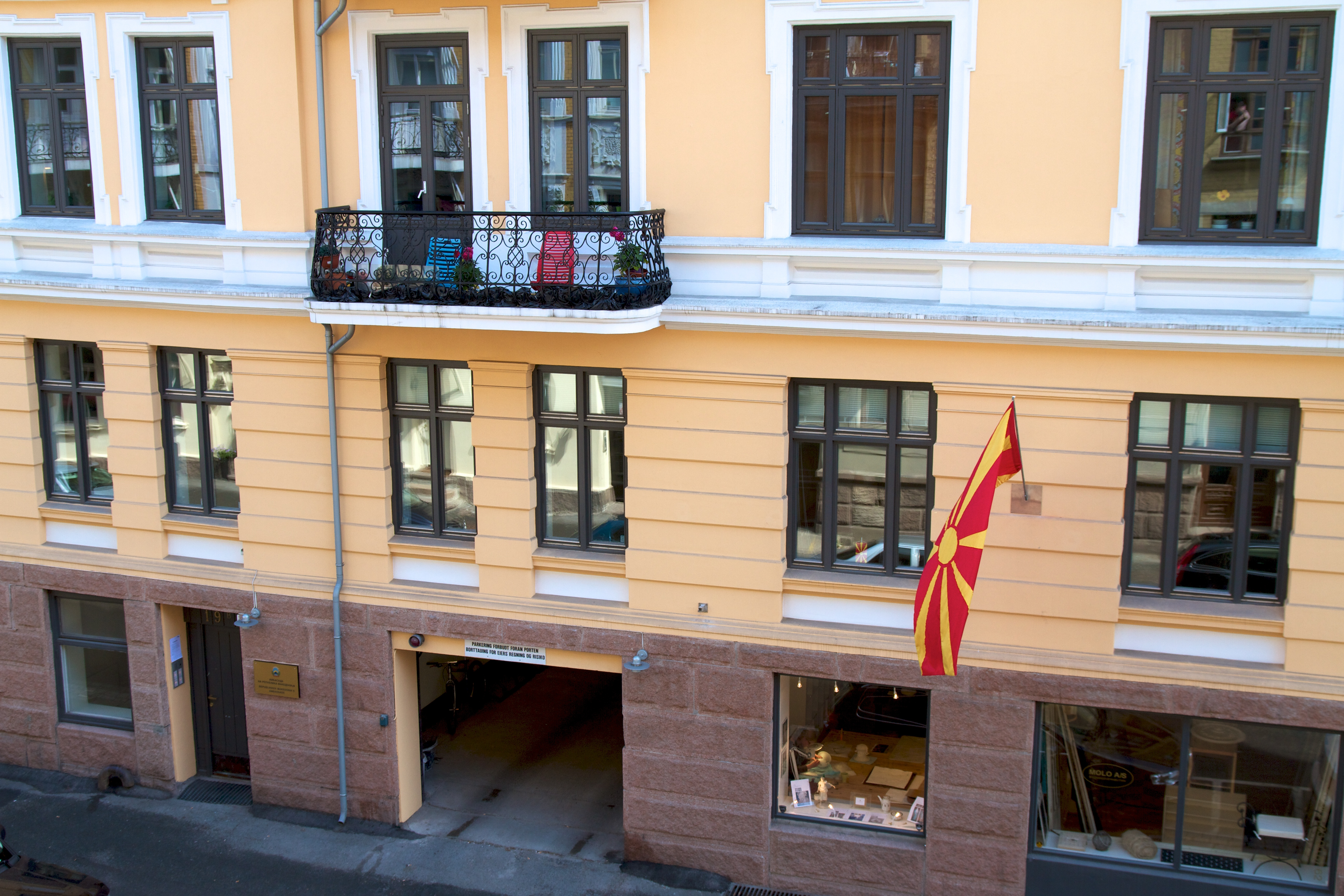 Embassay of the Republic of Macedonia, Oslo, Norway.